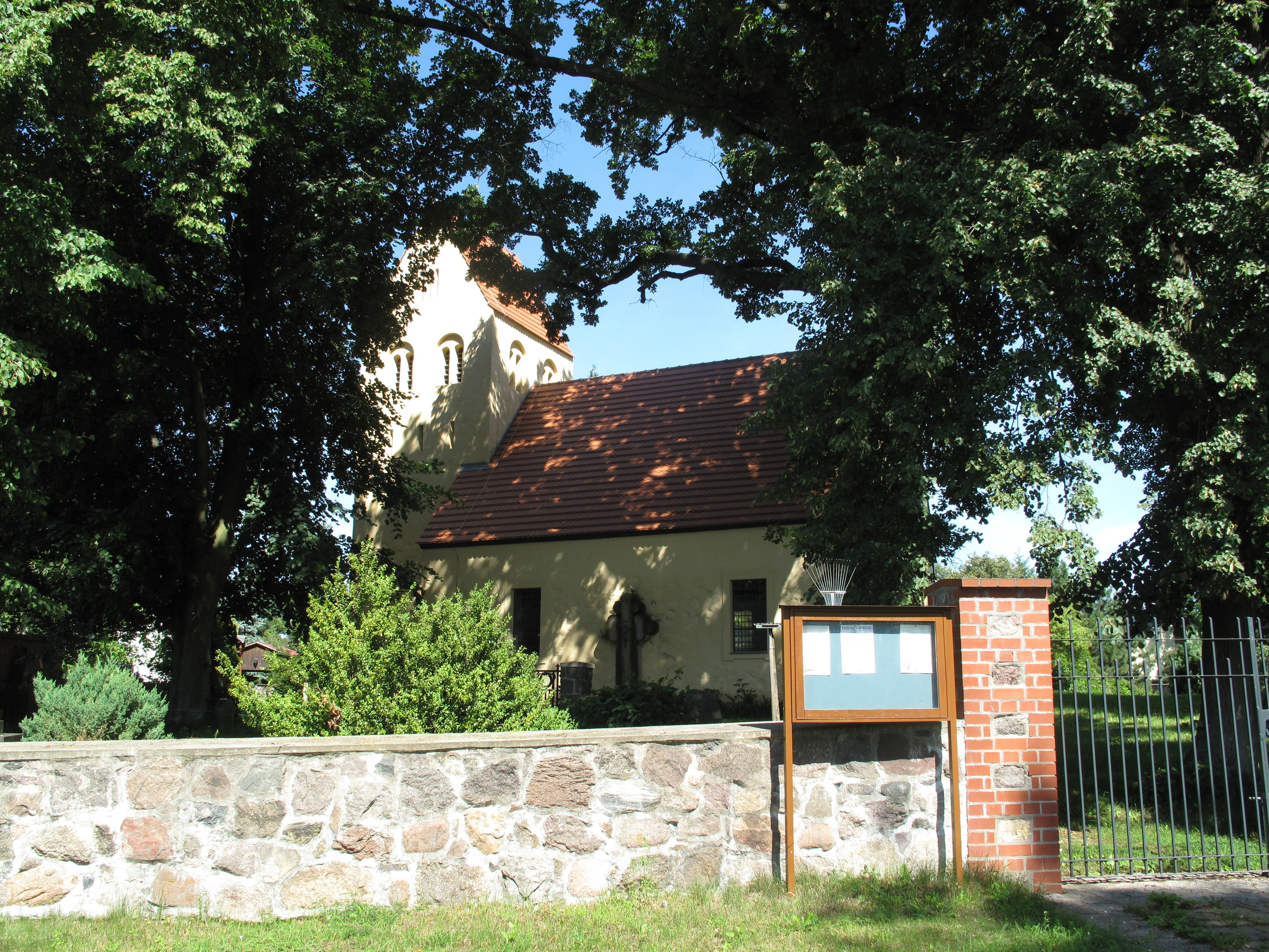 Listed village and Fieldstone church in Pritzhagen, a village of the municipality Oberbarnim in the District Märkisch-Oderland, Brandenburg, Germany. The church was built in the 14th/15th-century, but had been remodelled.